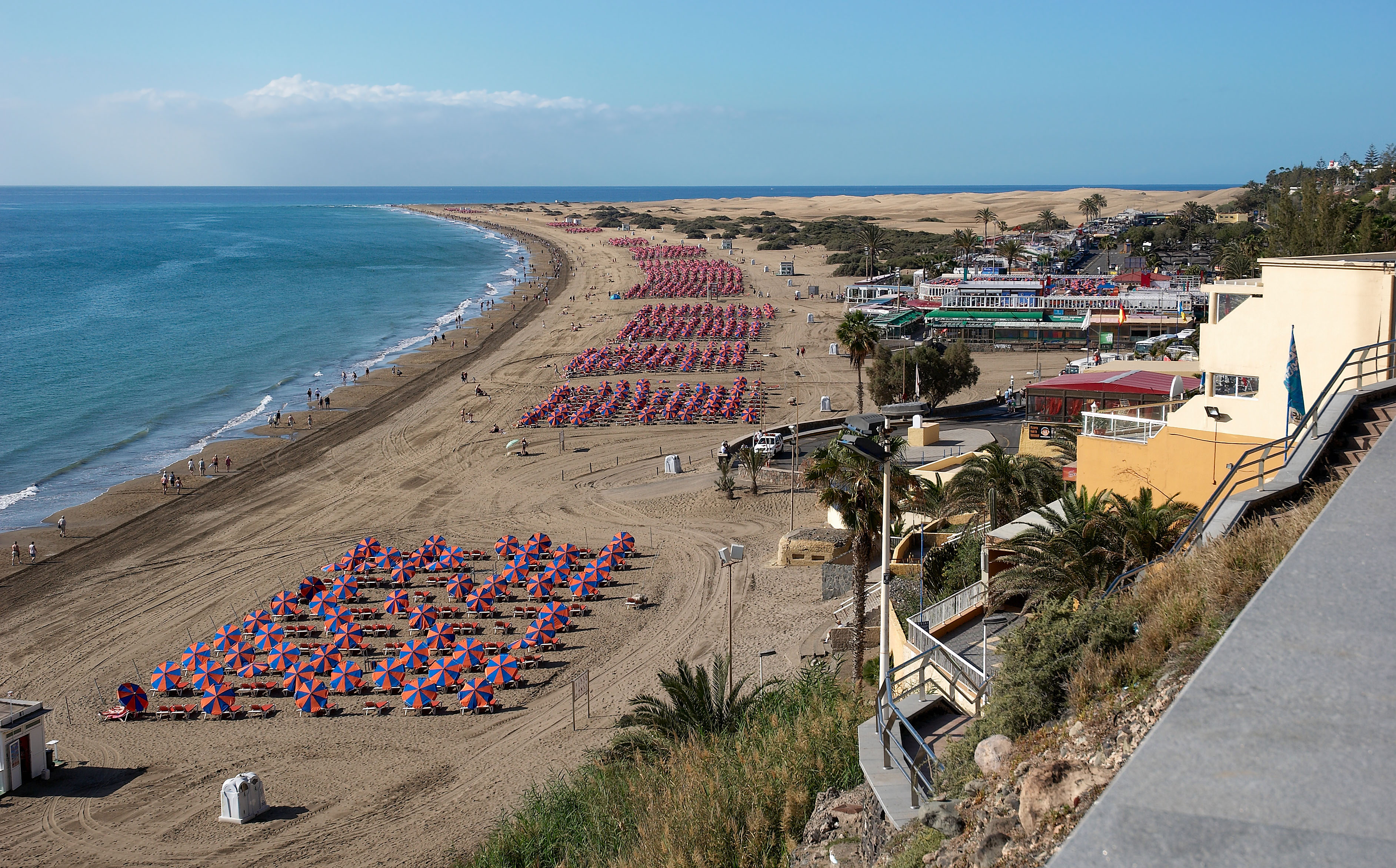 Gran Canaria, Playa del Inglés beach